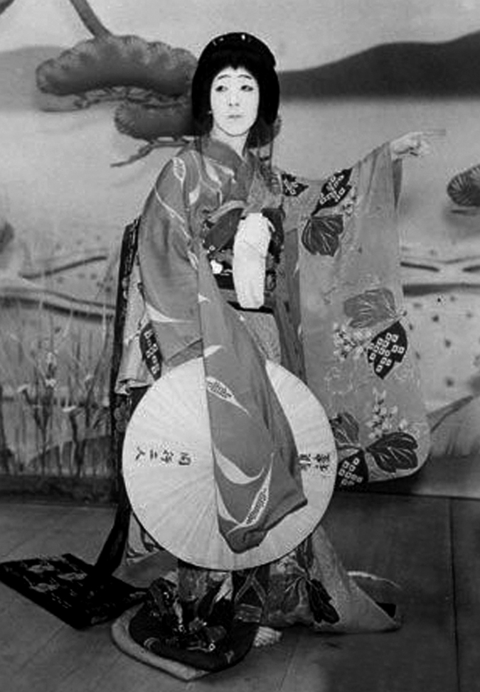 Fukusuke Nakamura VI (1917–2001) as Madman Onatsu, in the December 1939 Tokyo Kabuki-za production of Onatsu Kyōran